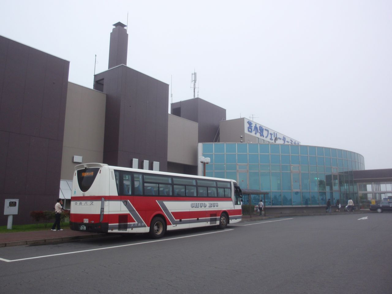 Port of Tomakomai Ferry Terminal and Hokkaido Chuo Bus Kosoku Tomakomai-go